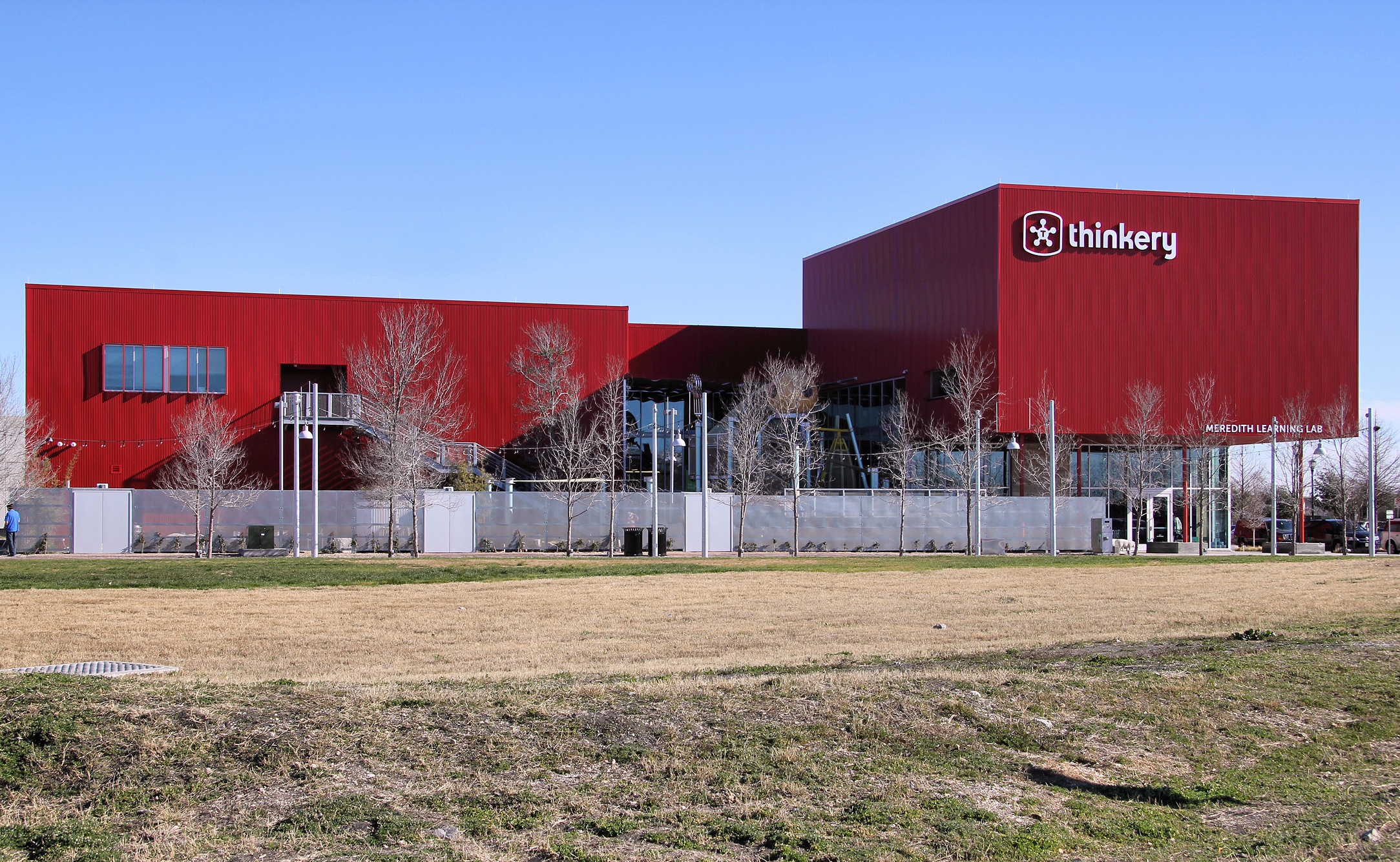 The Thinkery (formerly the Austin Children's Museum) in Mueller Community, Austin, Texas, United States